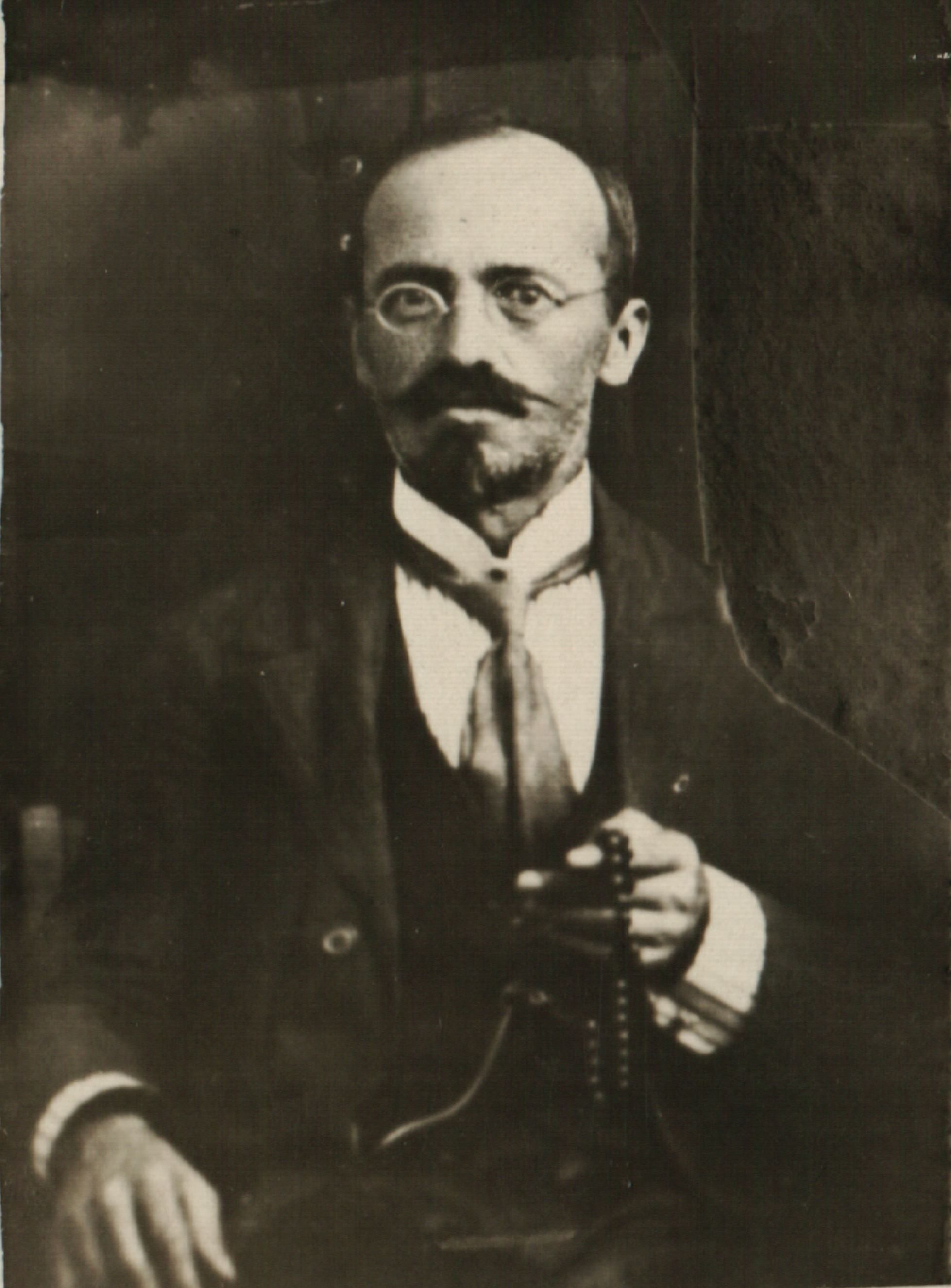 Kozma Pogonchev